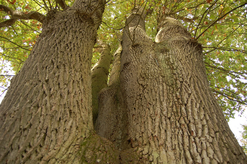 Upper part of the "Chêne des Six Frères" (The Six Brother's Oak), located in the southern part of the Dourdan forest.